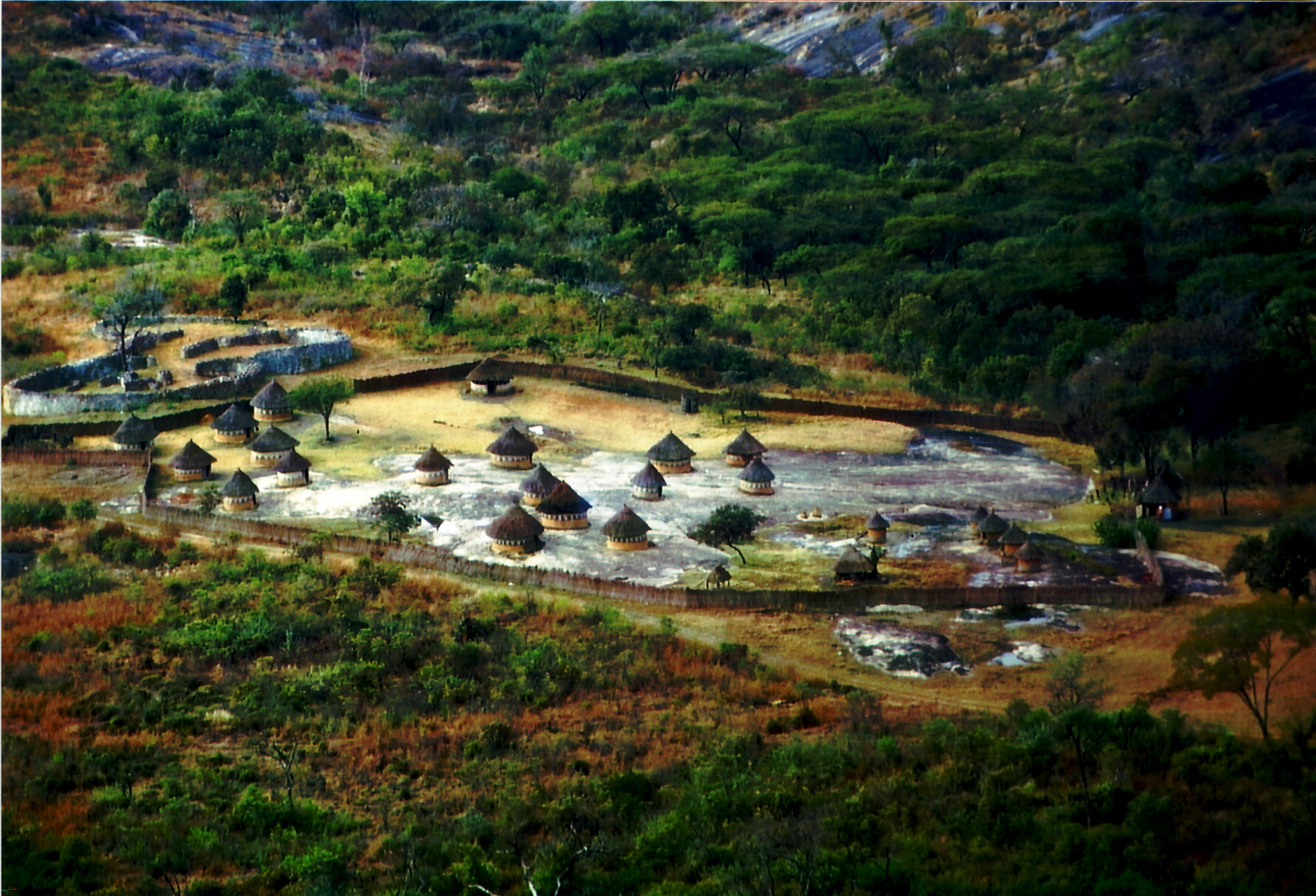 Karanga village in the valley of Great Zimbabwe